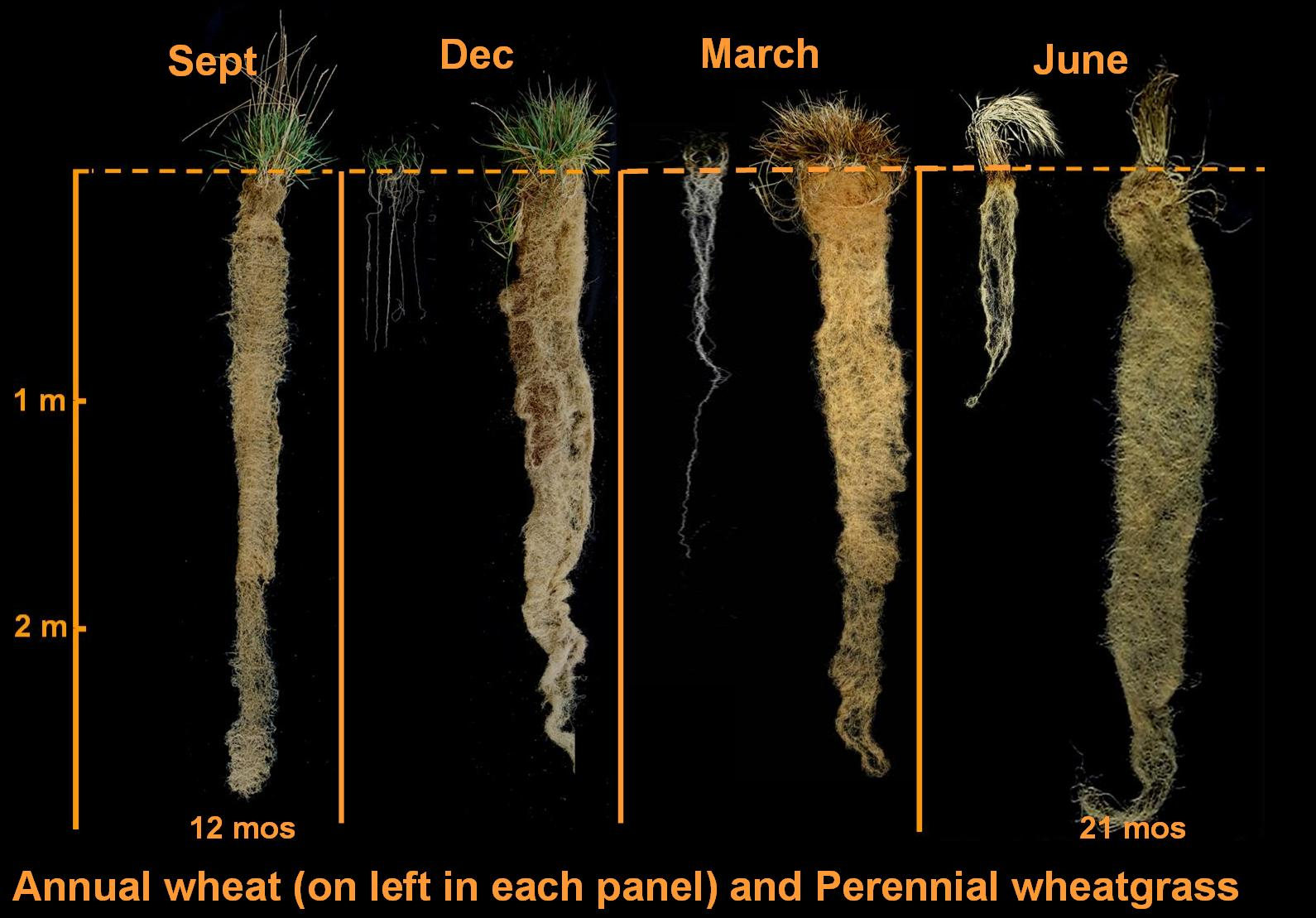 Comparison of wheat roots to those of Thinopyrum intermedium in four seasons.